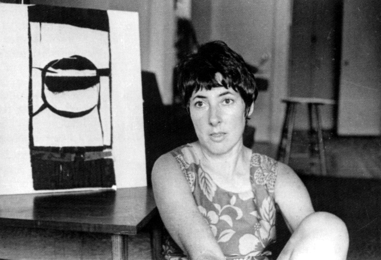 Undated photograph of Hannelore Baron in her studio, Riverdale, Bronx, New York.